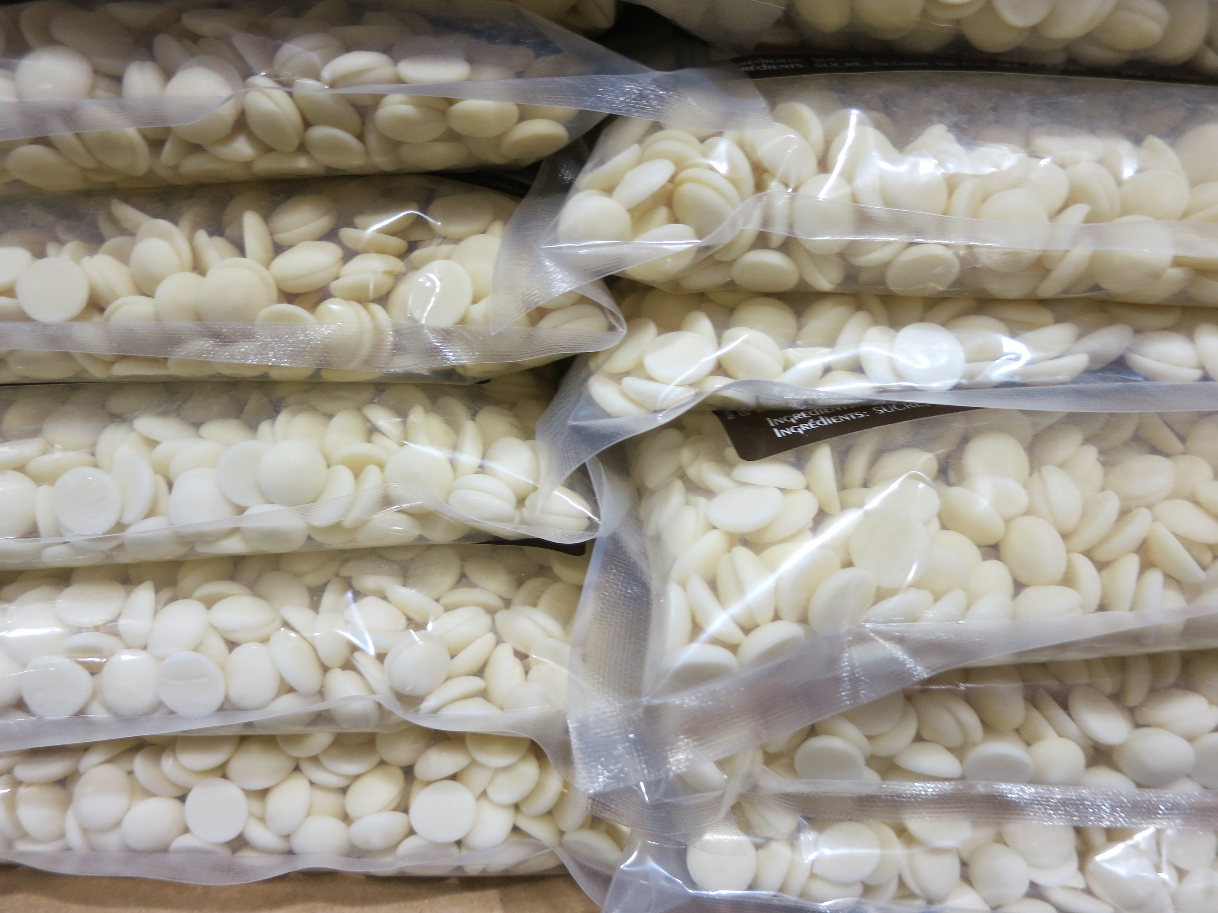 White chocolate chips